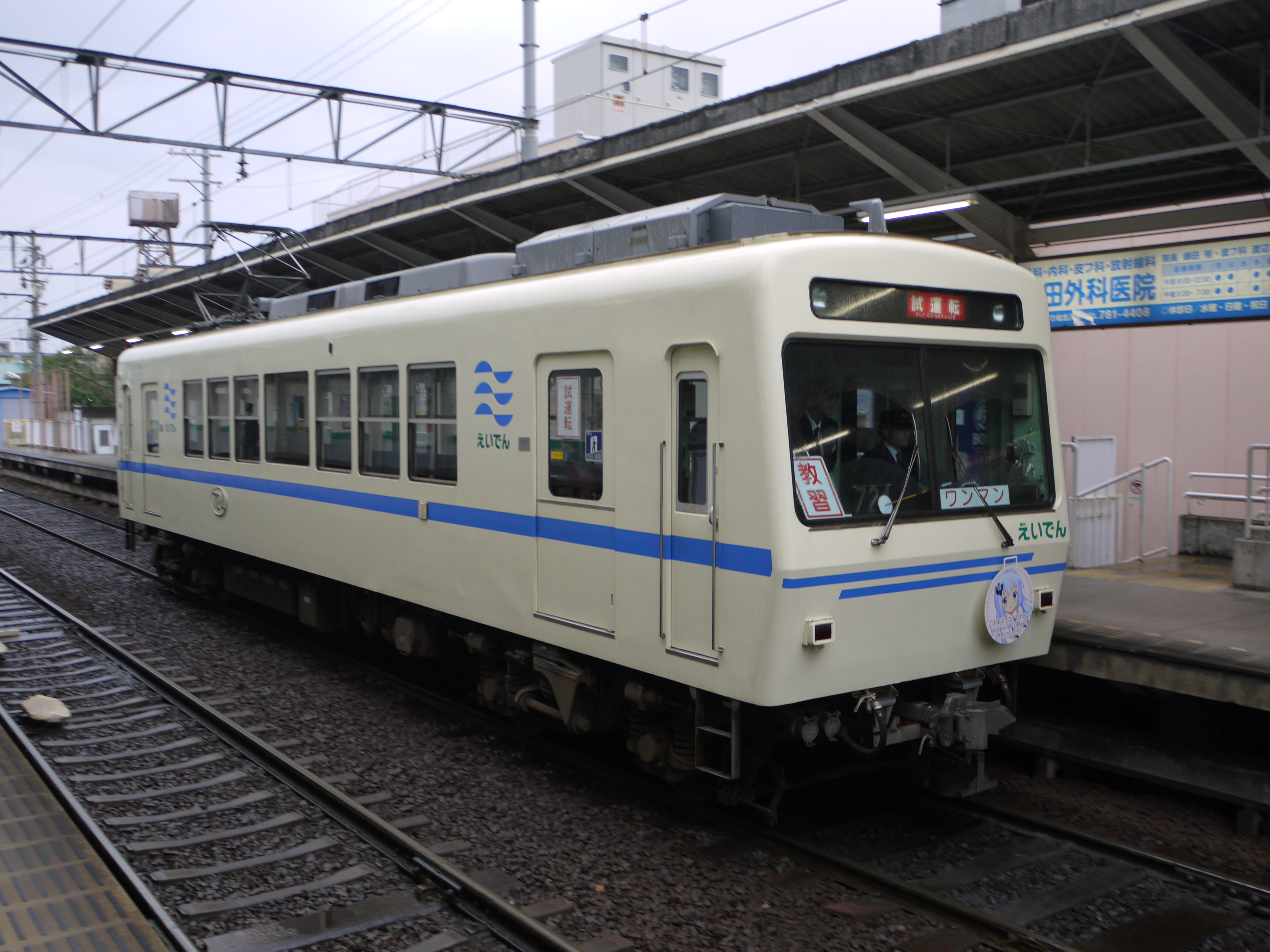 Eizan Electric Railway Deo 724 at Shugakuin